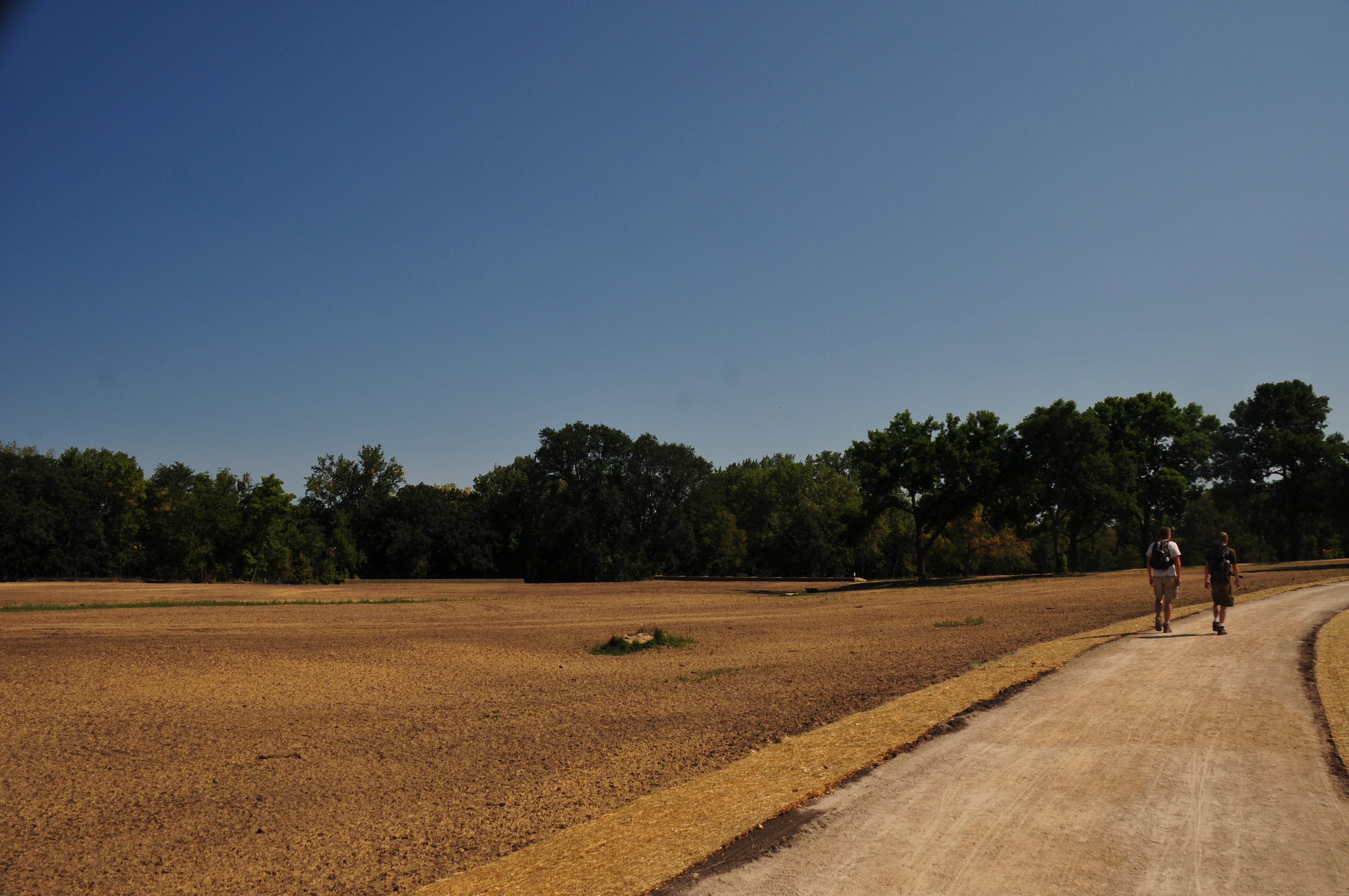 Clear-cut prairie land near Coldwater Spring on the day that the newly re-landscaped park opened to the public.